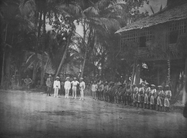 A photograph of the Australian flag-raising ceremony in Angorum, New Guinea. An official party stands by as the Proclamation of the Australian Naval and Military Expeditionary Force taking control of the country from the German Force is read out.